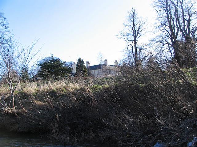 Stevenson House The river bank on the Tyne with Stevenson House in the background. You can see a little litter swept down from Haddington.